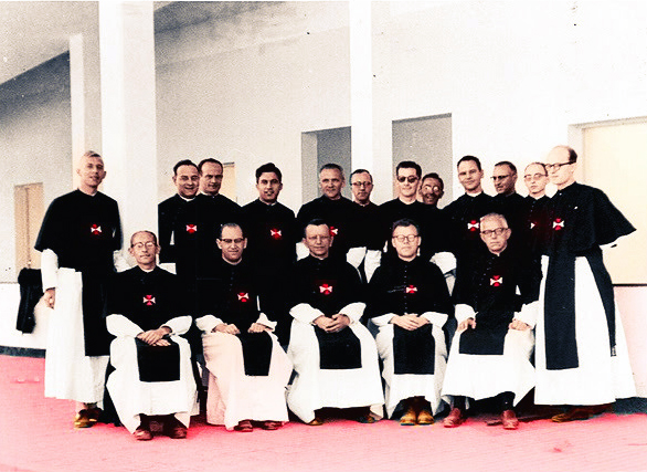 This image was colored digitally, and is an old image of a personnel file. This image shows the Dutch missionary priests of the Canons Regular of the Order of the Holy Cross in Colégio Dom Cabral, Campo Belo, Brazil.